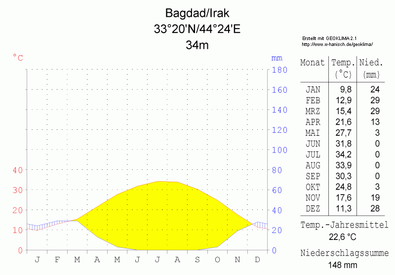 climate chart in the format by Walther and Lieth, metric, °Celsisus and millimeters, made with Geoklima 2.1